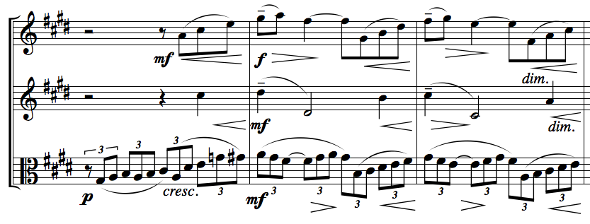 Symphony No. 2, composed by Sergei Rachmaninof in 1906-07. Movement 3.